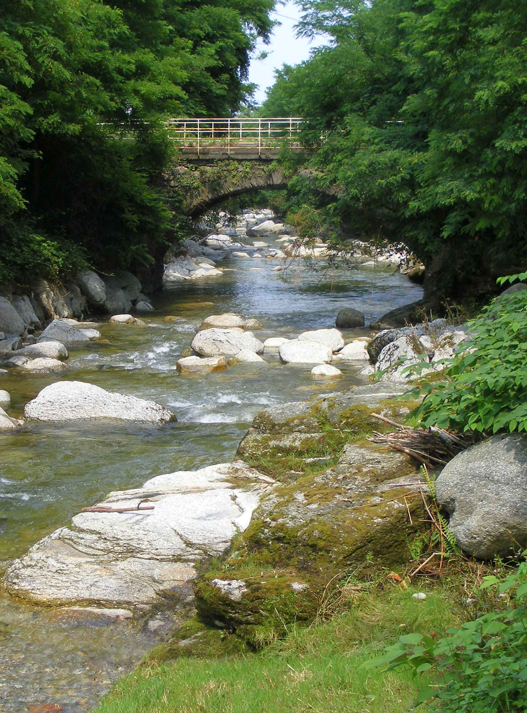 Ghiandone creek: bridge to the Combe sanctuary (Barge, CN, Italy)